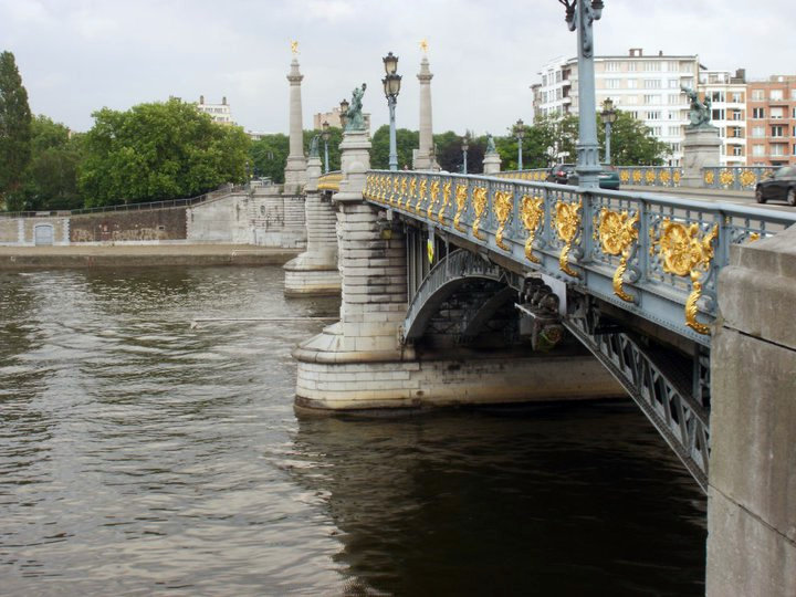 Pont de Fragnée in Liége